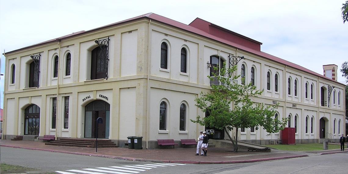 Naval Chapel and Rigging building (marked "VRI 1887" built in the reign of Queen Victoria), Garden Island, Sydney, Australia. The chapel occupies both floors of the northern end of the building.